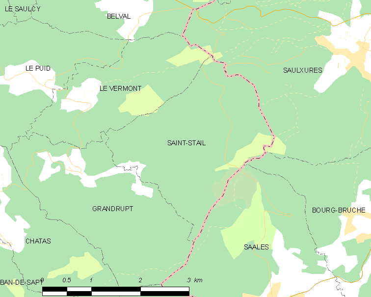 Map of French municipality Saint-Stail